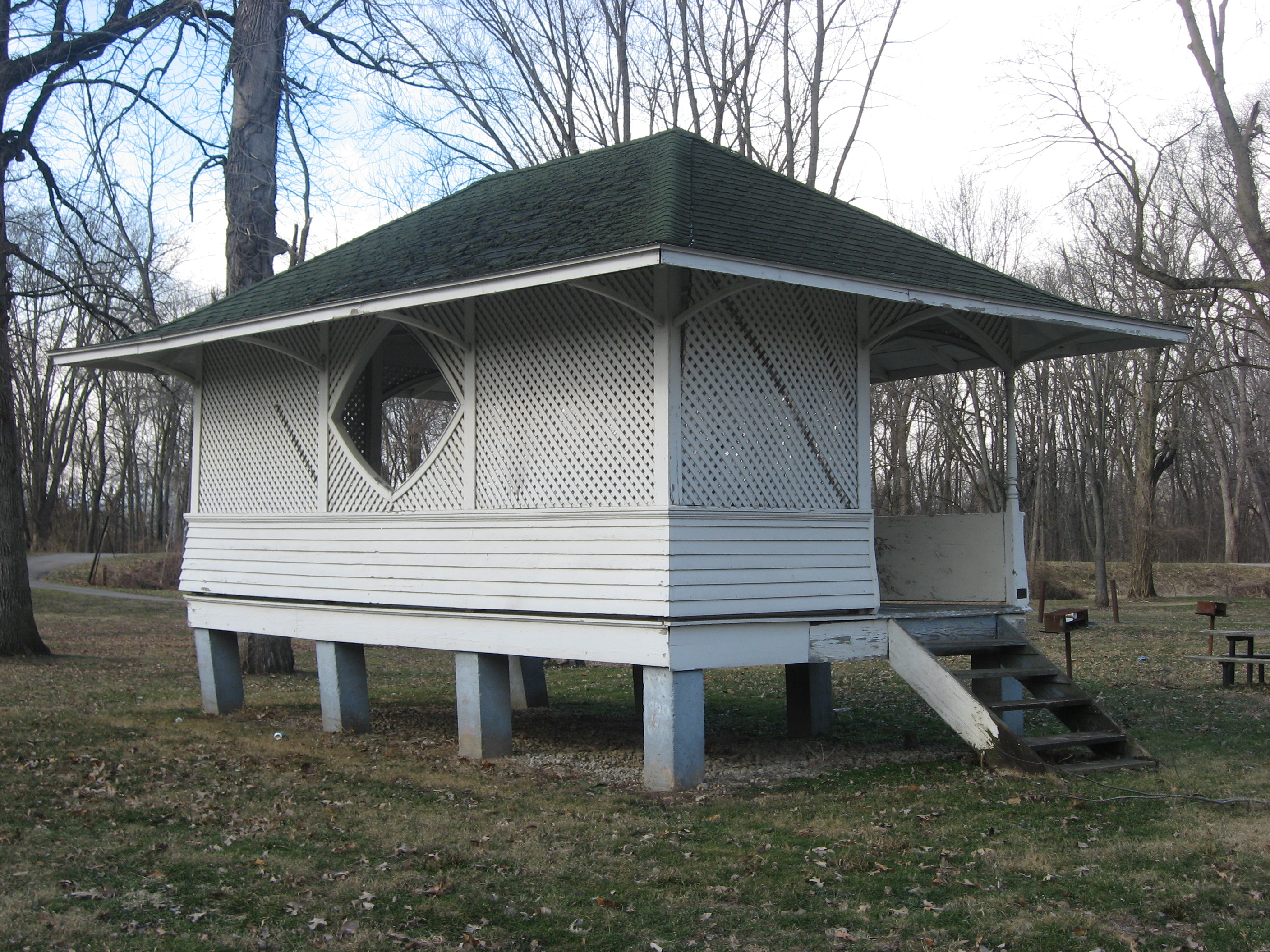 Southeastern and northeastern sides of the Monterey Bandstand, located in Kleckner Park off Walnut Street in Monterey, Indiana, United States. Built in 1912, it is listed on the National Register of Historic Places.